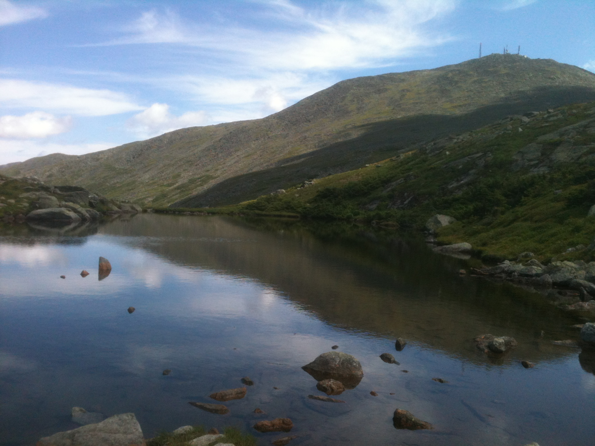 Mount Washington's upper slopes from one of the Lakes of the Clouds.